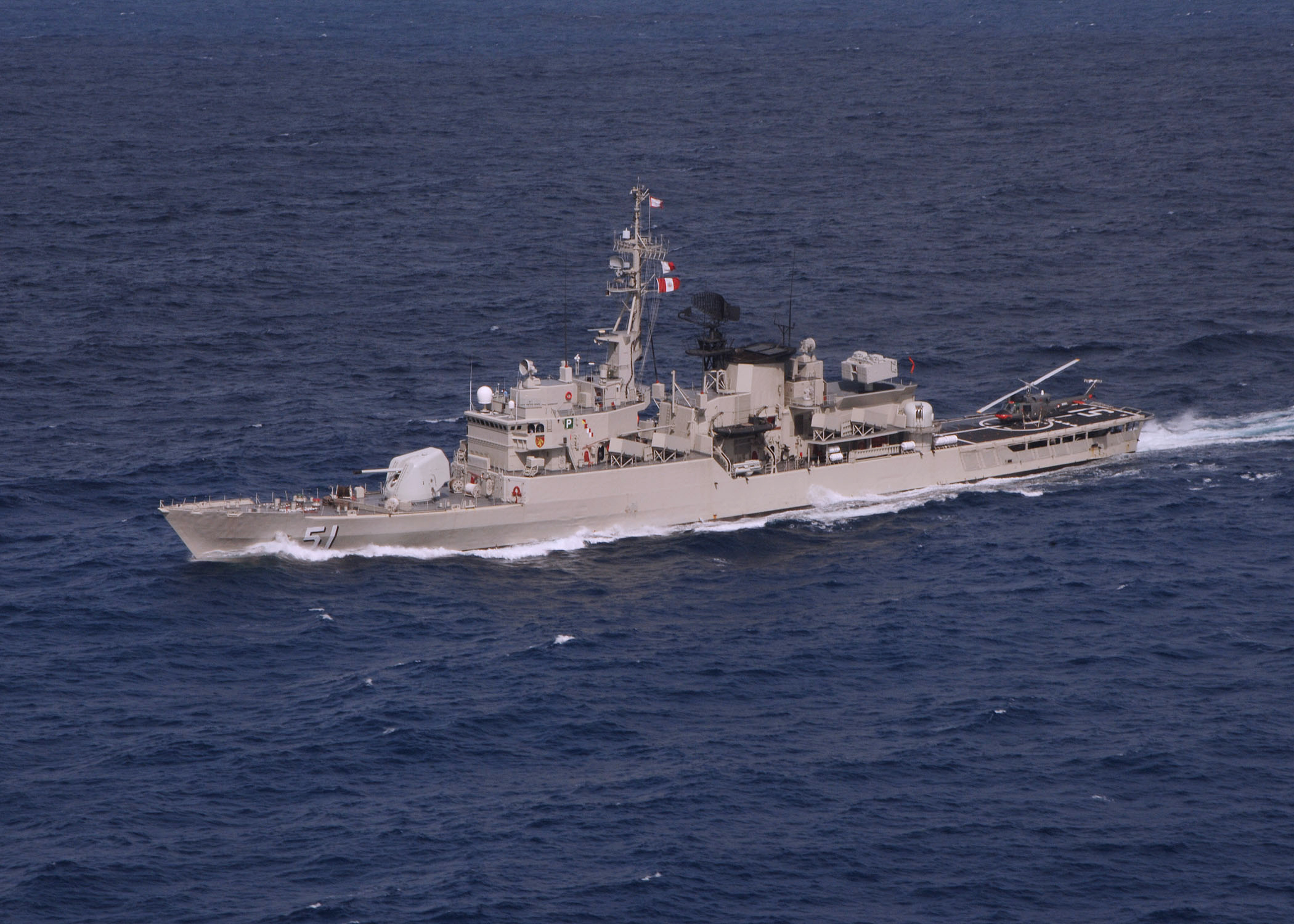 050718-N-4374S-012 Caribbean Sea (July 18, 2005) - The Peruvian frigate BAP Carvajal (FM 51) maneuvers through the Caribbean Sea during UNITAS 46-05. Carvajal is part of a multinational naval and coast guard force from six nations conducting UNITAS 46-05 Pacific Phase off the coasts of Colombia. The Colombian Navy in this year's UNITAS Pacific Phase hosts Ecuador, Panama, Peru and the United States. During the two-week exercise, participating units have the opportunity to train as unified force in all aspects of naval operations, from maritime interdiction to anti-submarine and electronic warfare. U.S. Naval Forces Southern Command sponsors UNITAS exercises with the objective to foster cooperation and develop interoperability among the navies of the region. U.S. Navy photo by Photographer's Mate 2nd Class Michael Sandberg (Released)